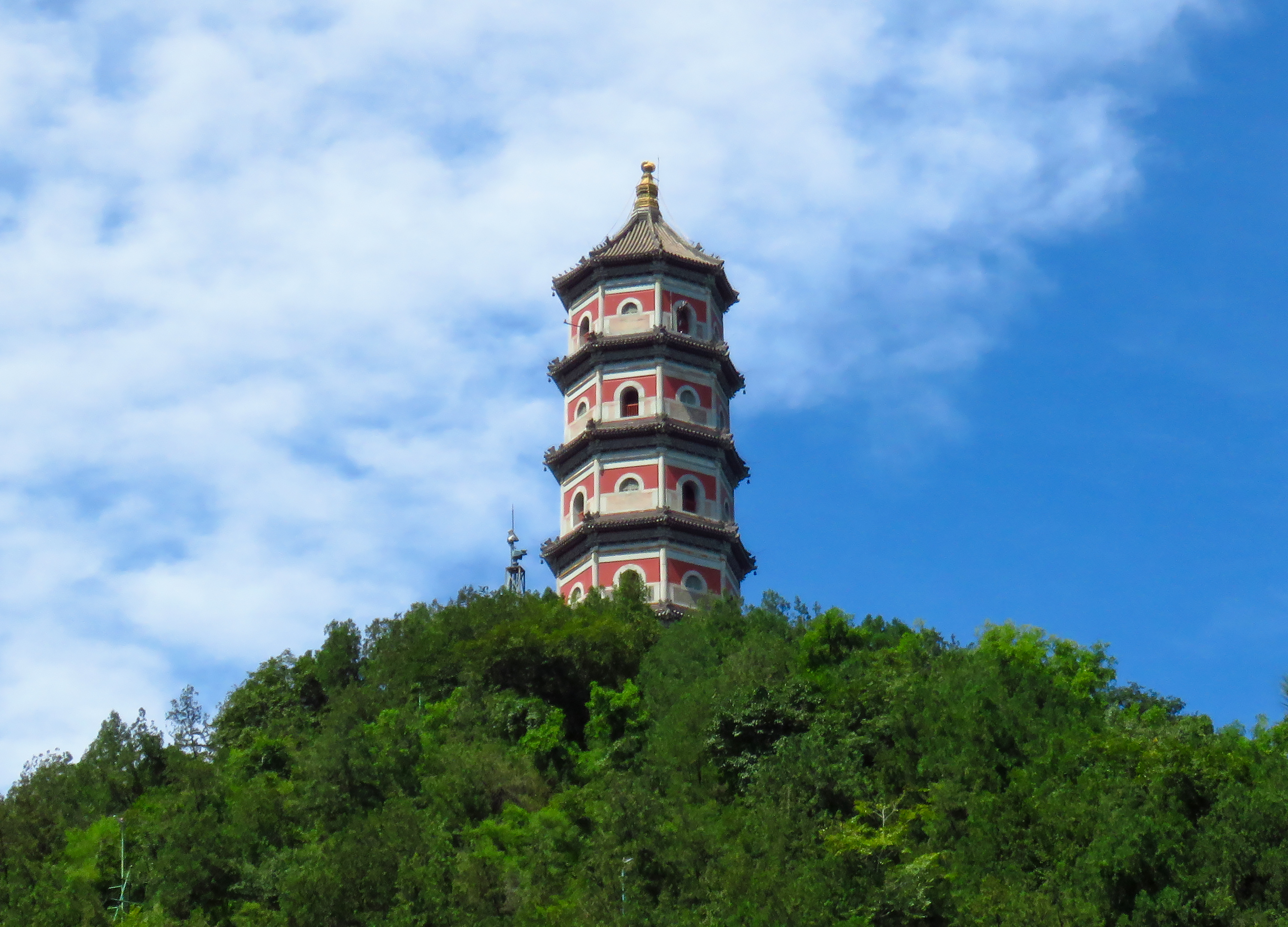 Some uncertainty remains in Zhongwu...